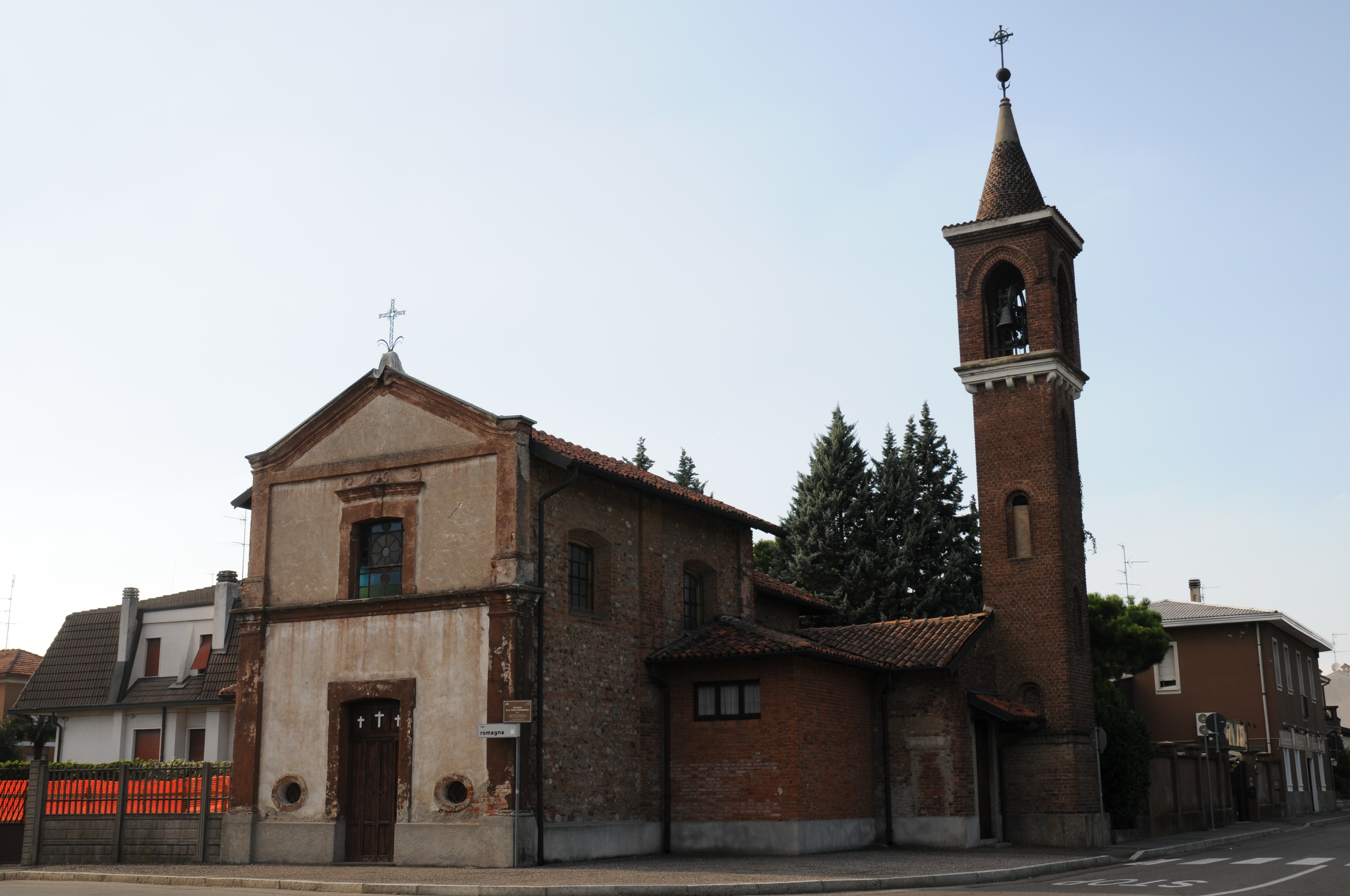 Ponzella Church in Legnano (Italy)